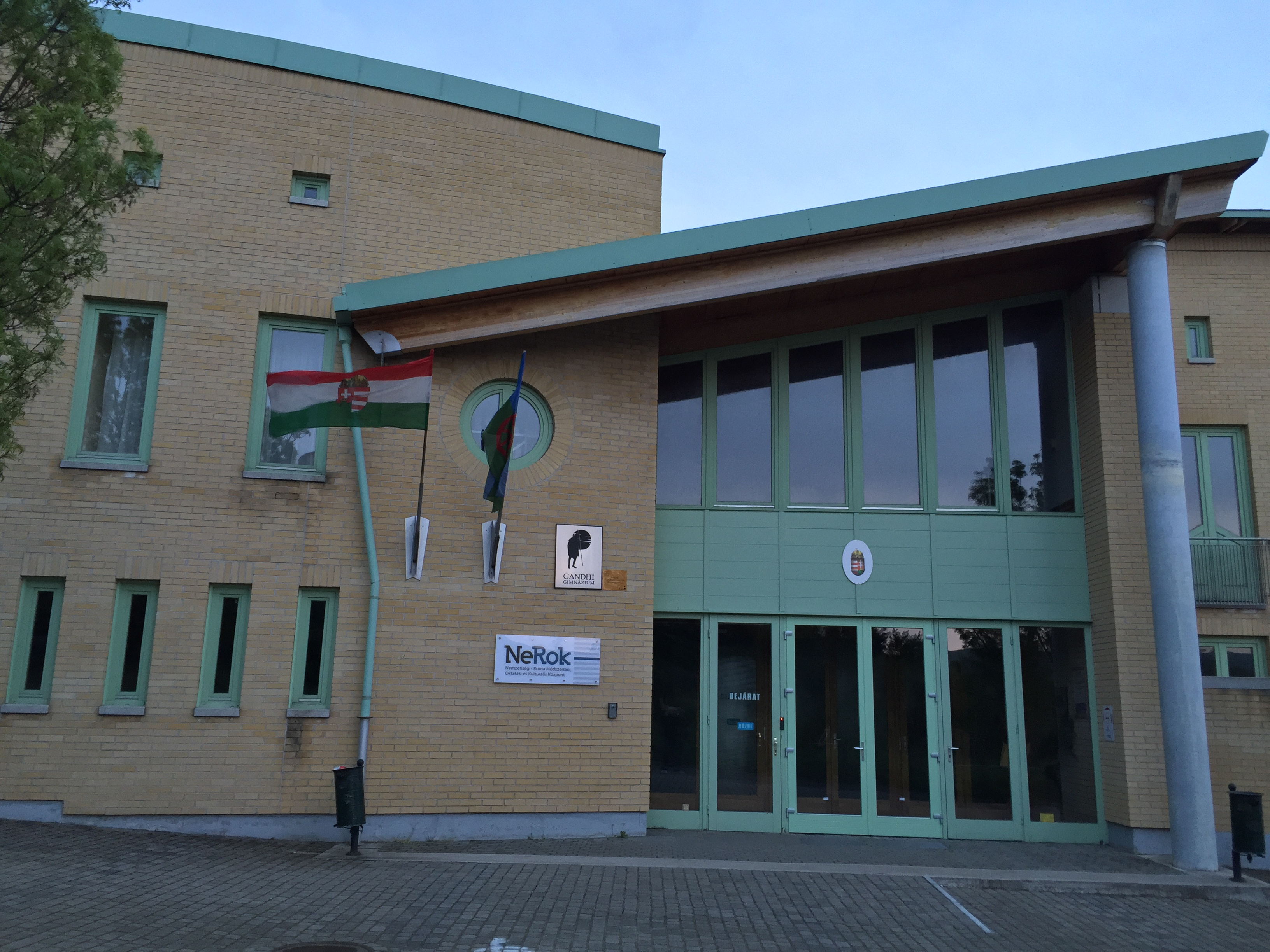 Main building of Gandhi High School in Pecs